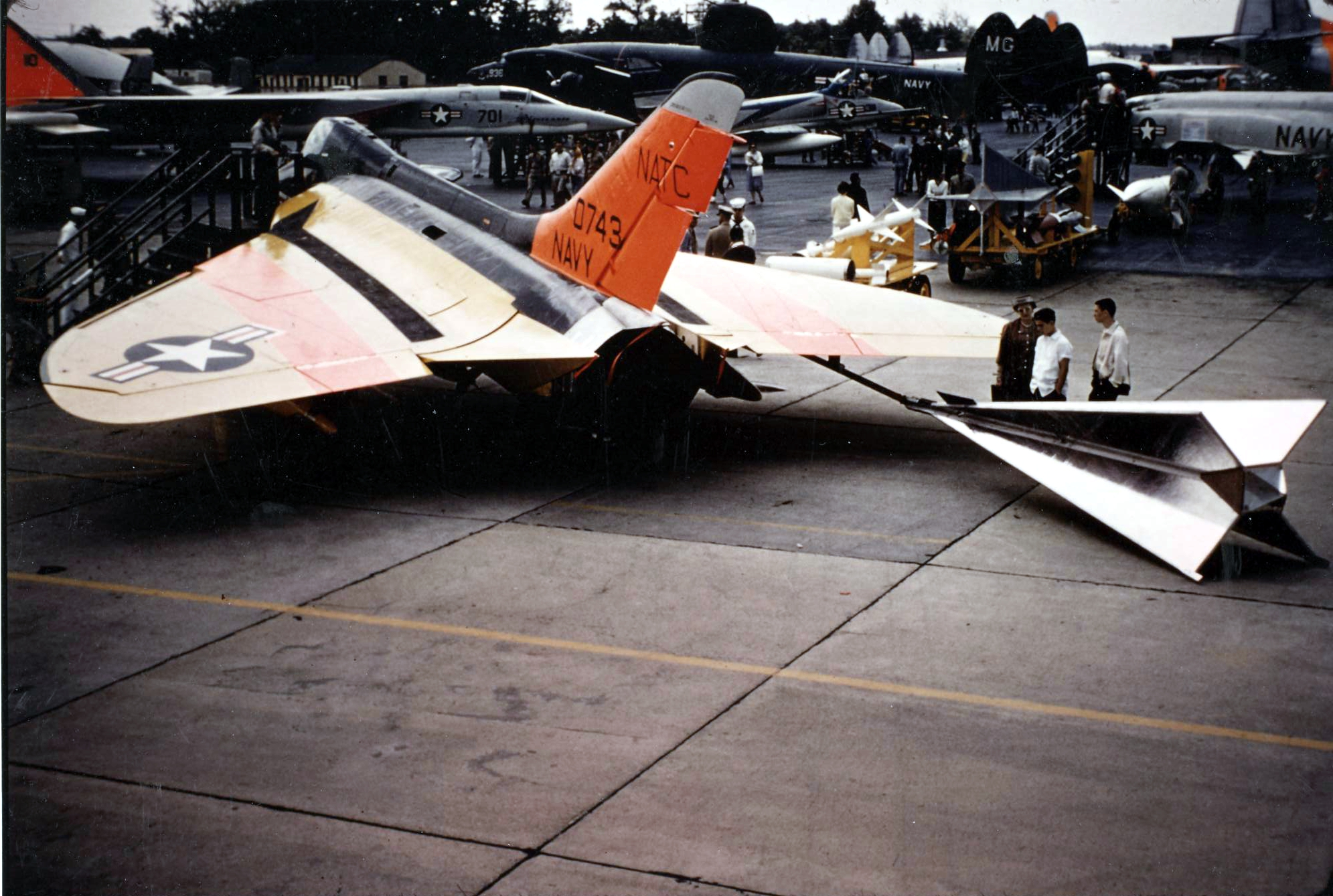 A U.S. Navy Douglas F4D-1 Skyray (BuNo 130743) from the Naval Air Test Center at Naval Air Station Patuxent River, Maryland (USA), with a towed target on display at Andrews Air Force Base, Maryland.